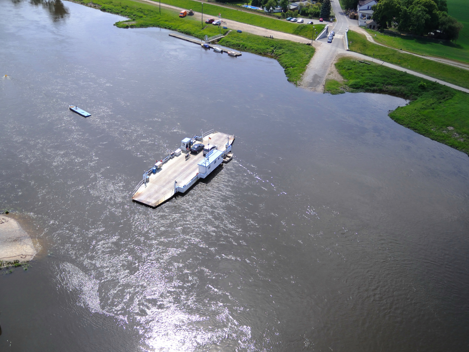 KAP (Kite Aerial Photography)